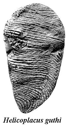 Helicoplacus (Echinodermata:Helicoplacoidea)